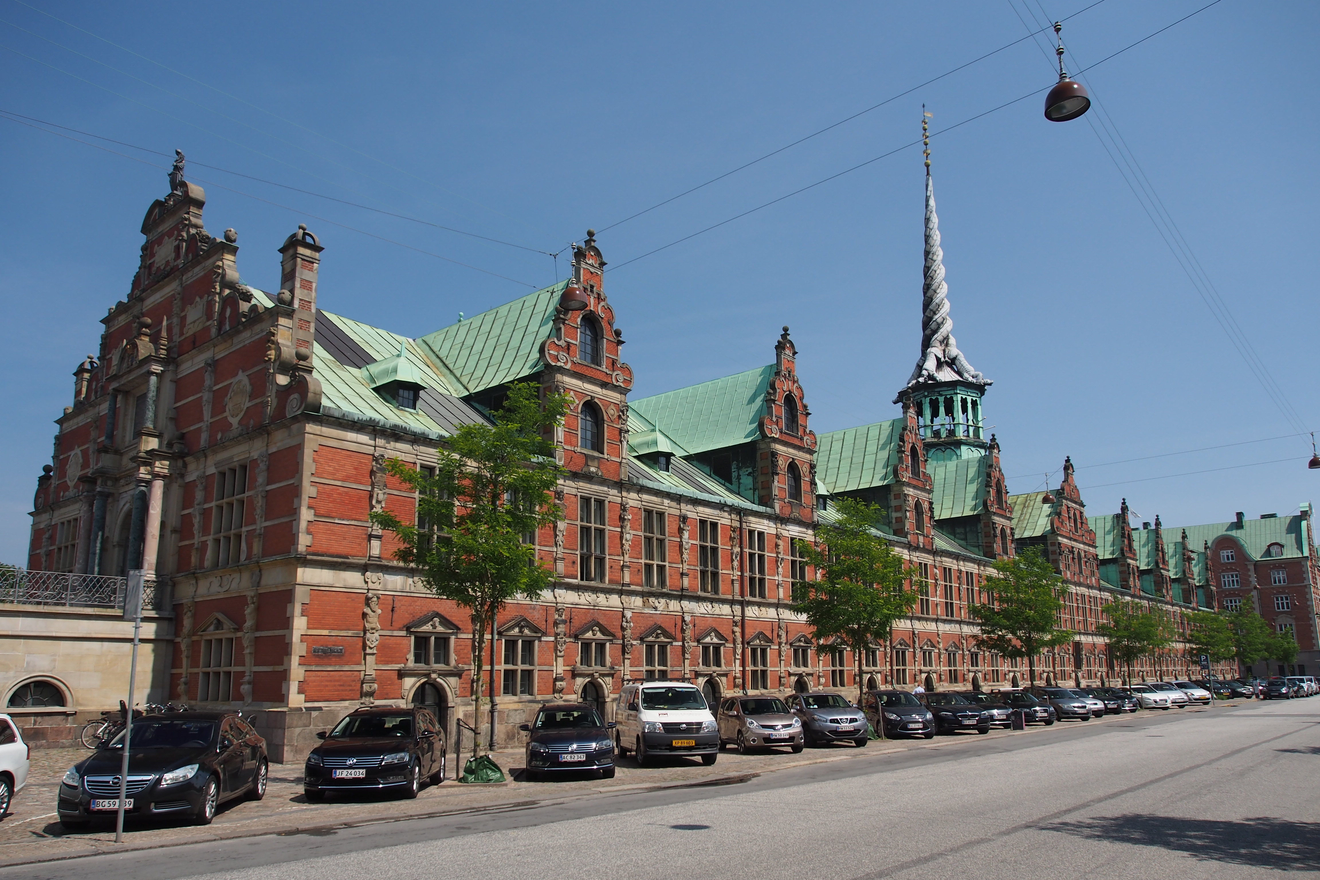 Photographed at the Copenhagen, Denmark.